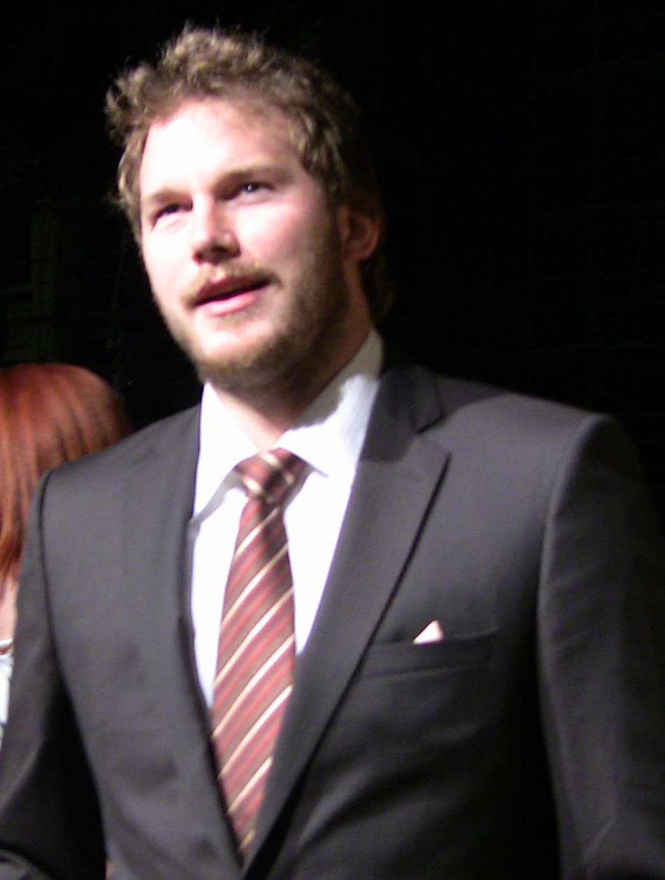 Actor Chris Pratt at the premiere party of TV series Parks and Recreation